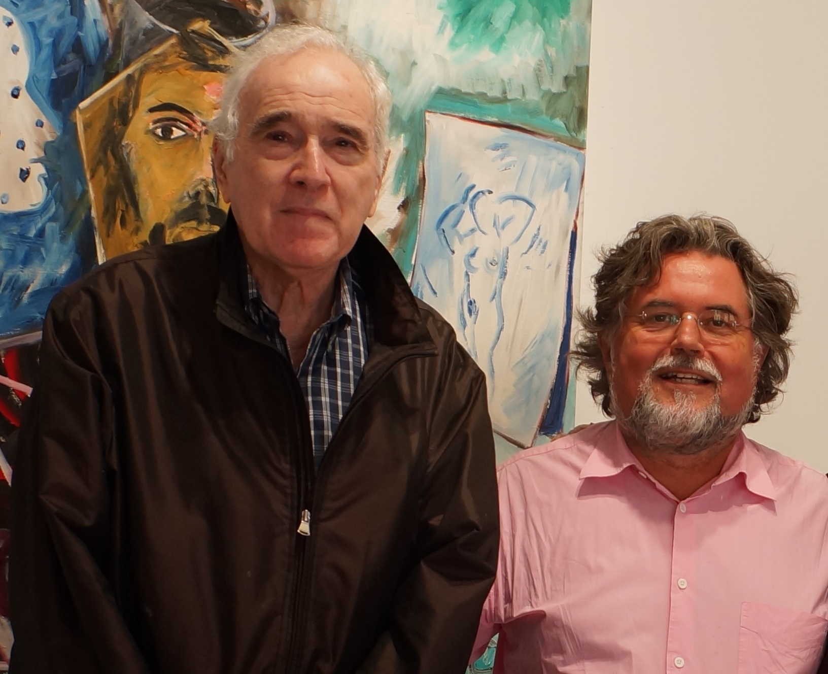 Donald Kuspit and Stefan Szczesny at 532 Gallery Thomas Jaeckel, September 2012